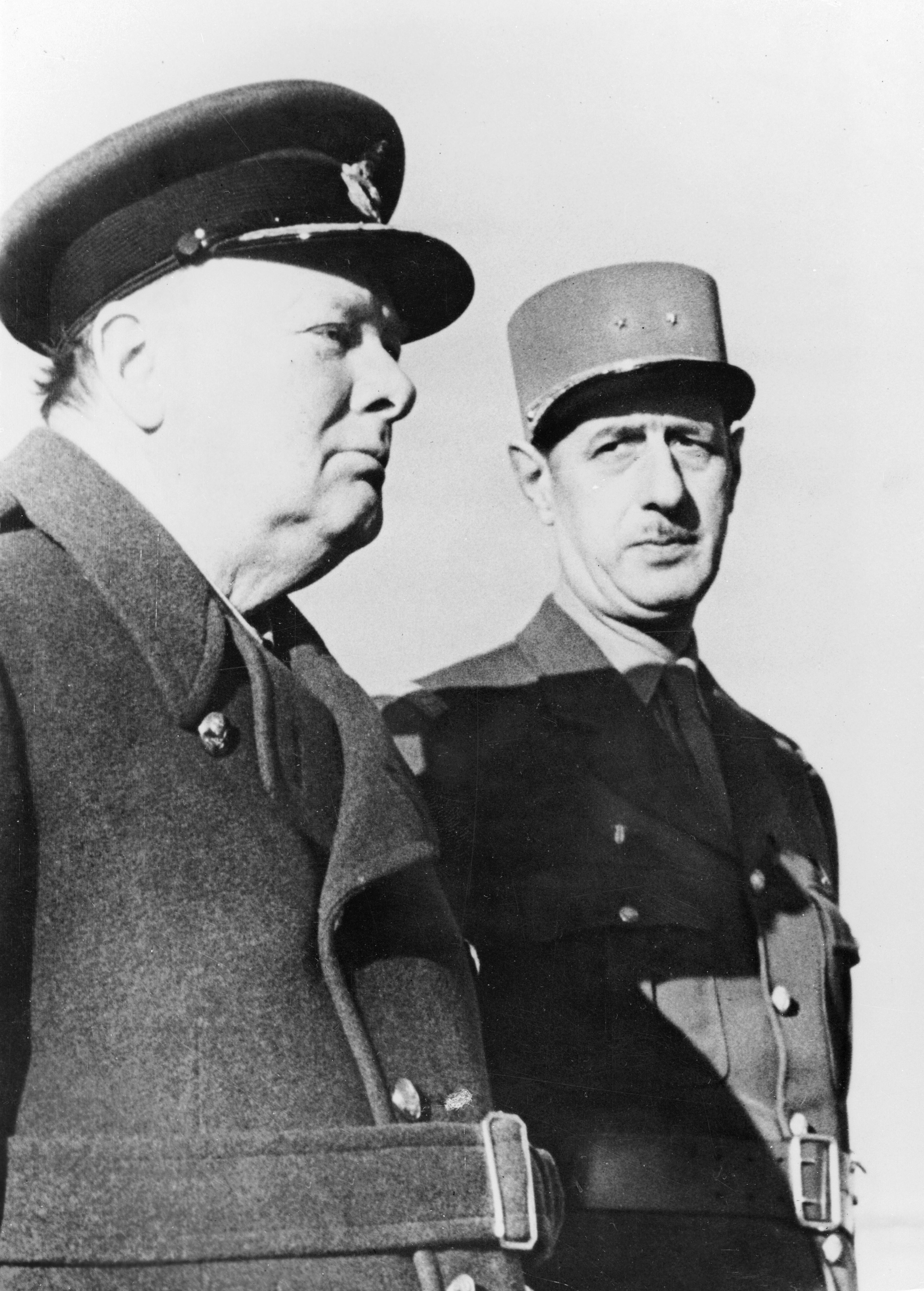 The Prime Minister Winston Churchill (in his air commodore's uniform) and General Charles De Gaulle review French soldiers during their meeting in Marrakesh, Morocco, on 13 January 1944.